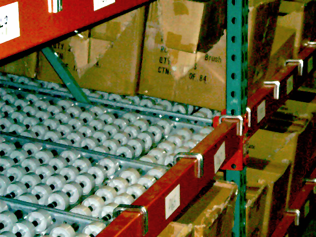 Carton flow lanes in selective pallet rack